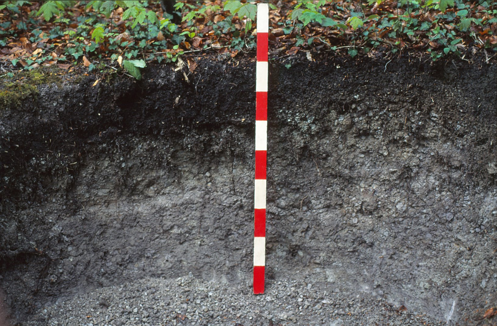 Pararendzina (Leptosol) on Keuper. Dinkelberg range, Southern Black Forest, Germany.